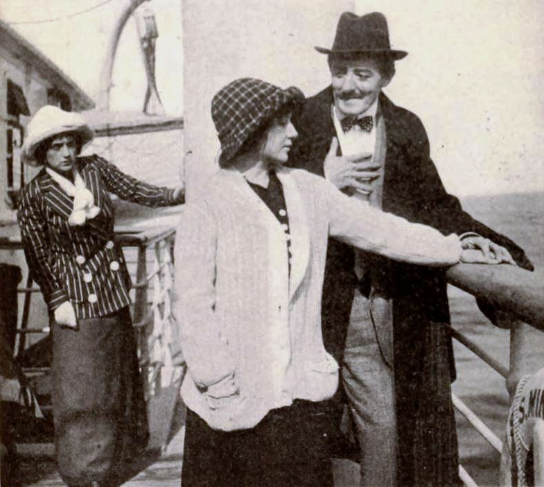 Still from the American film serial What Happened to Mary (1912) with Miriam Nesbitt, Mary Fuller, and Marc McDermott, on page 94 of the December 25, 1920 Exhibitors Herald.